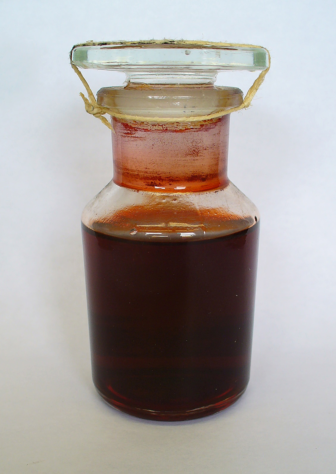 Dactylopius coccus, Dactylopiidae, Cochineal; Alcoholic extract of fertilized, dried females. )